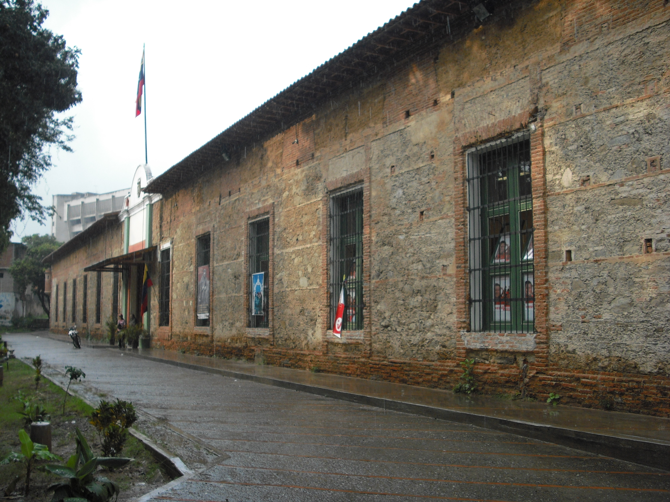 Entrance of the Quarter San Carlos, old Spanish military stronghold constructed by King Carlos III in century XVII.